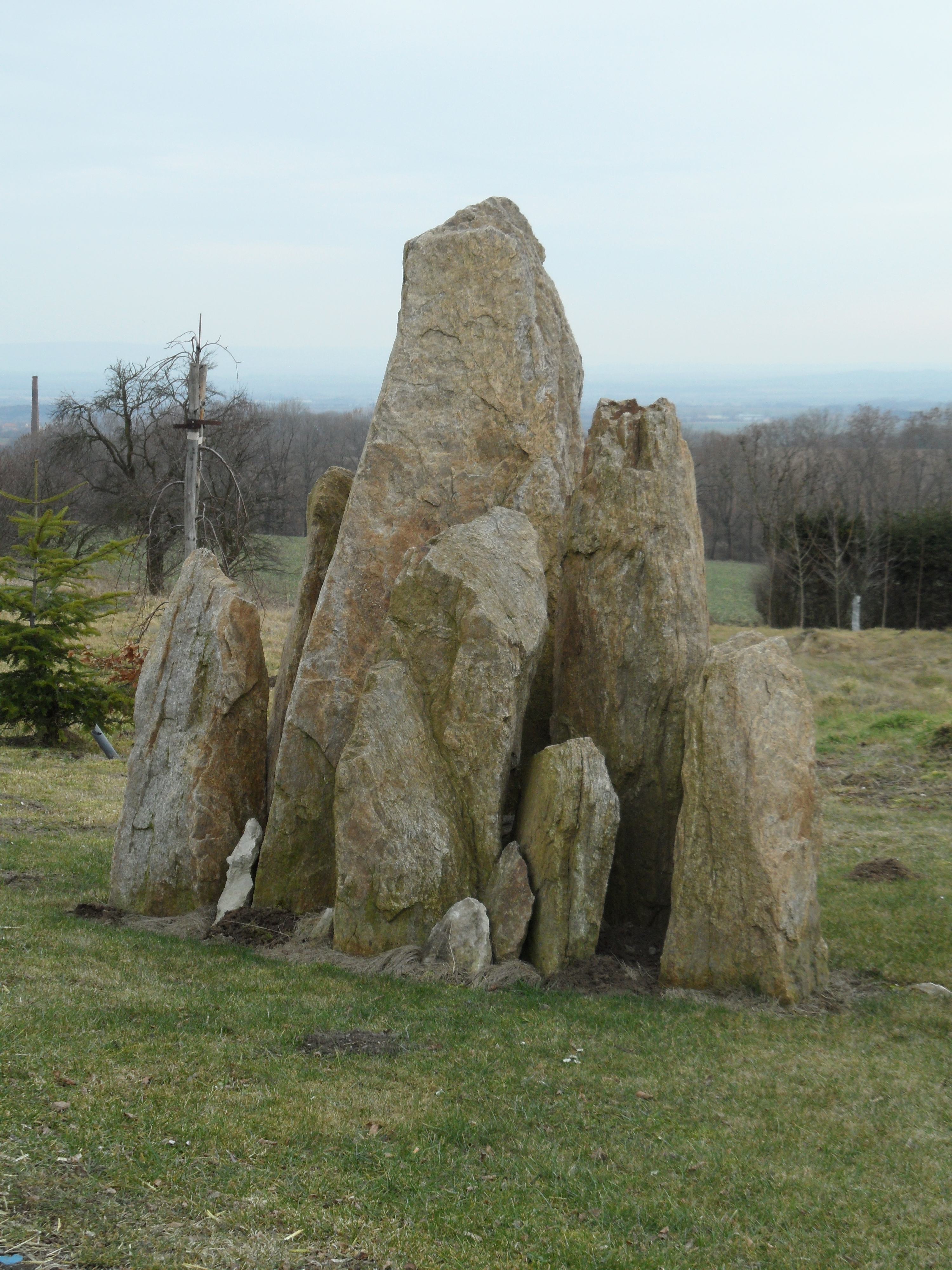 Mezholezy (Miskovice) D. "Menhirs" near house No. 6, Kutná Hora District, the Czech Republic.